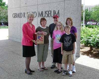 Gerald R. Ford Library and Museum Director Elaine Didier at the Museum on June 17, 2008 with the three millionth visitor, Cindy Lund. Cindy Lund (in green) was given an autographed copy of President Ford's autobiography. Didier arranged for Susan Bales Ford and Steven Ford to call Lund to congratulate her. Also photographed are Steve Lund, Connie Dieleman and her children Angela and Daniel. Event: Three Millionth Visitor. Location: Gerald R. Ford Museum, Grand Rapids, Michigan. Date: June 17, 2008. Credit: Courtesy Gerald R. Ford Museum. Rights Information: Public Domain (No usage fees, no permission required).